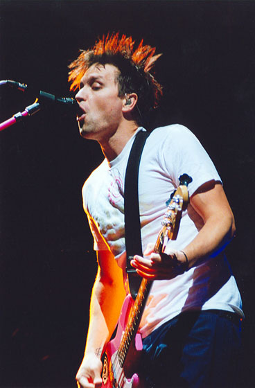 Mark Hoppus at the Verizon Wireless Music Center in Noblesville, Indiana.